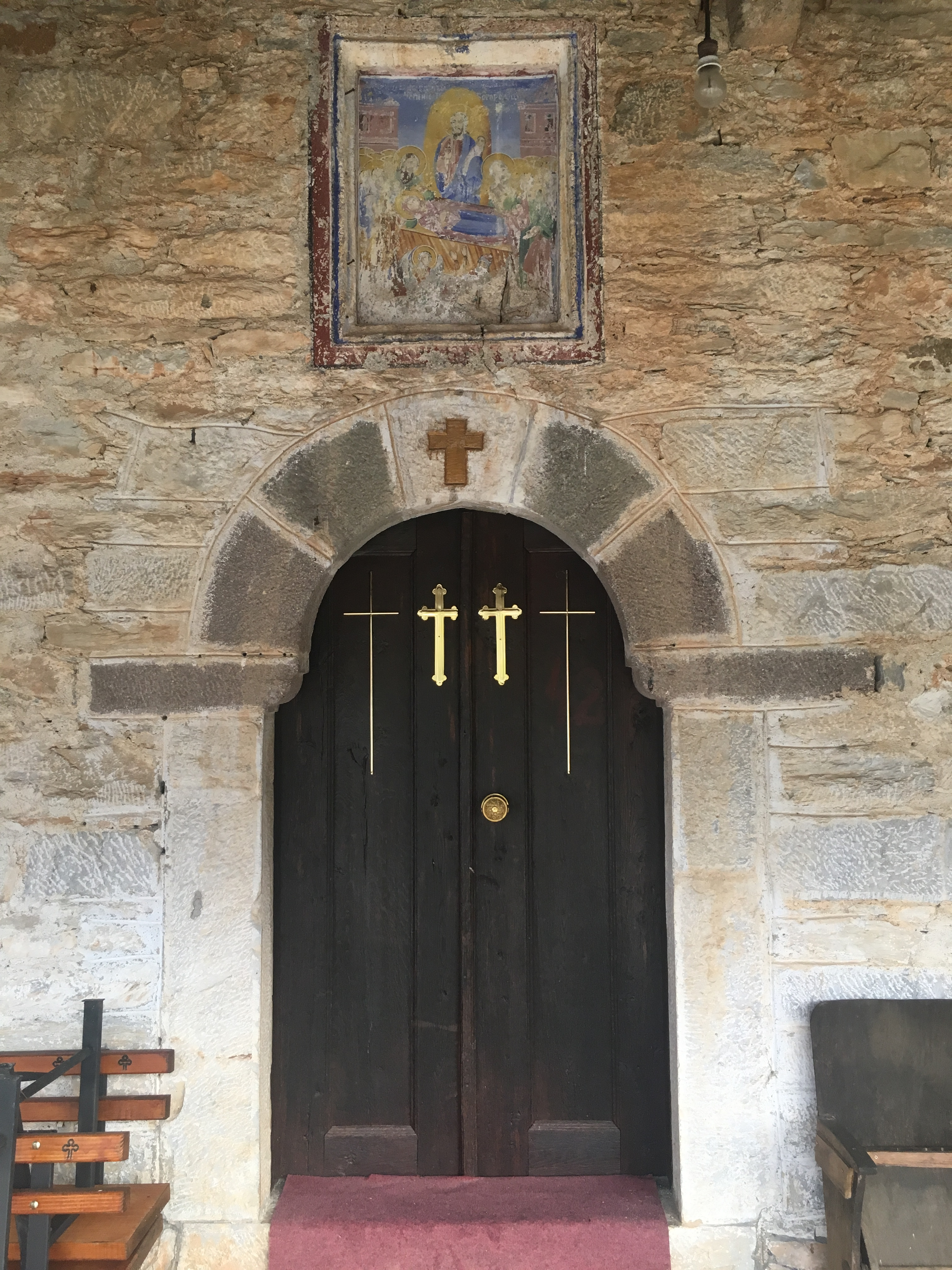 Wikiexpedition to Kopačka